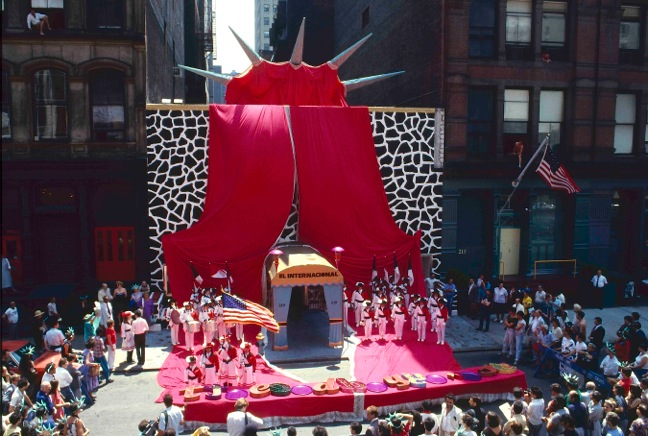 El Internacional Tapas Bar & Restaurant, art project led by Antoni Miralda and Montse Guillén during 1980s in TriBeCa, NY